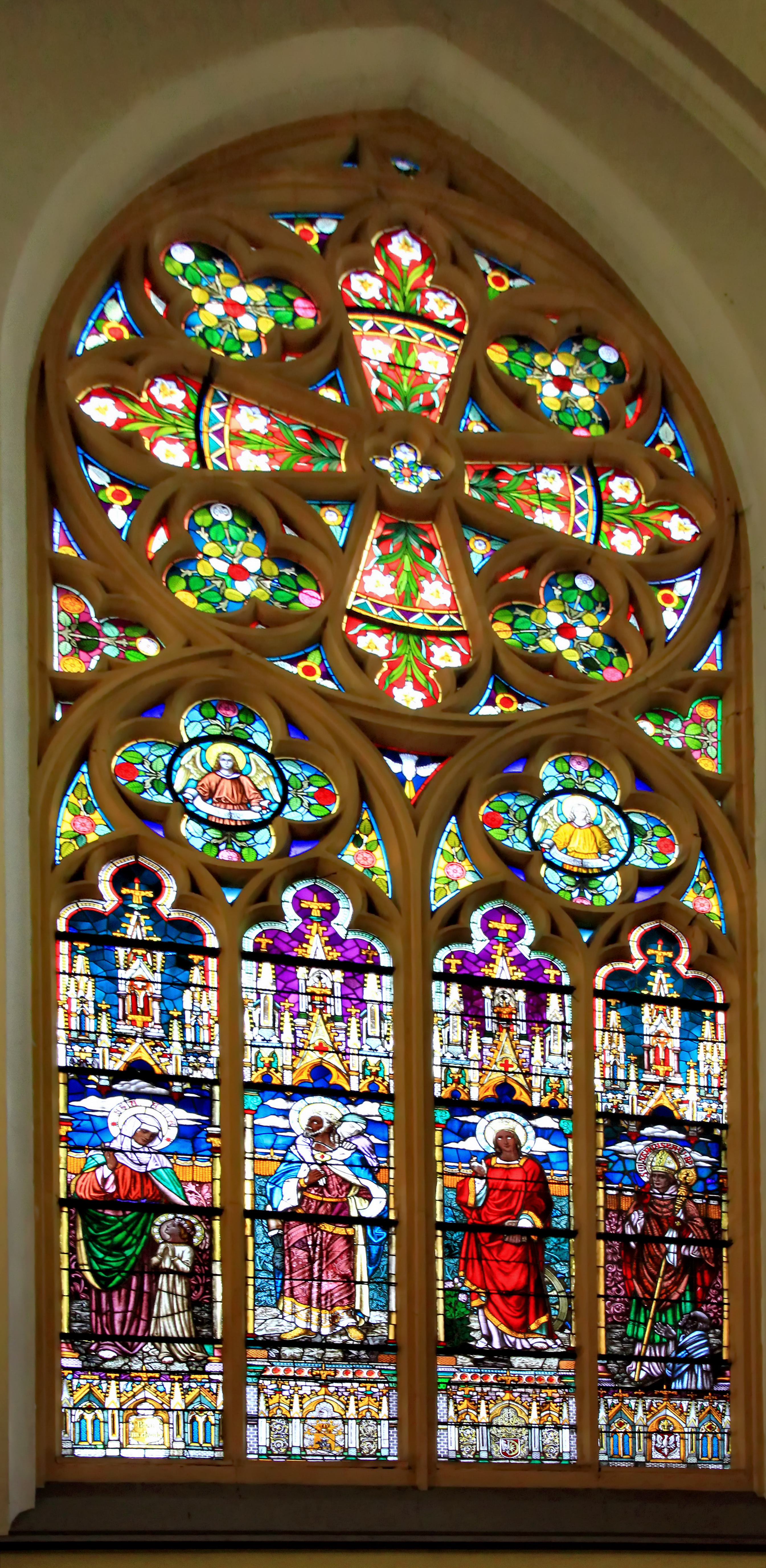 Racibórz, Church of John the Baptist, build in 1836